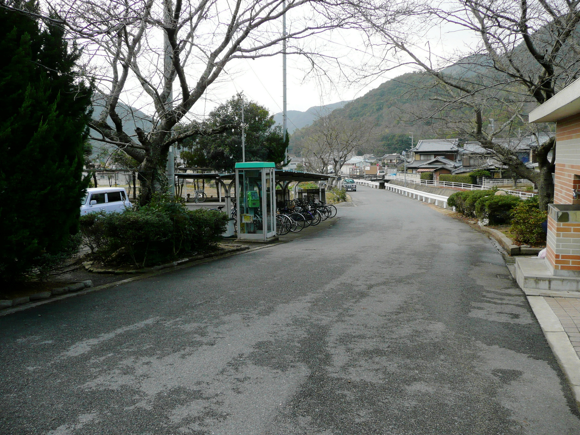 West Japan Railway Ako Line Sougo Station road. / 赤穂線寒河駅から国道250号に繋がる道路